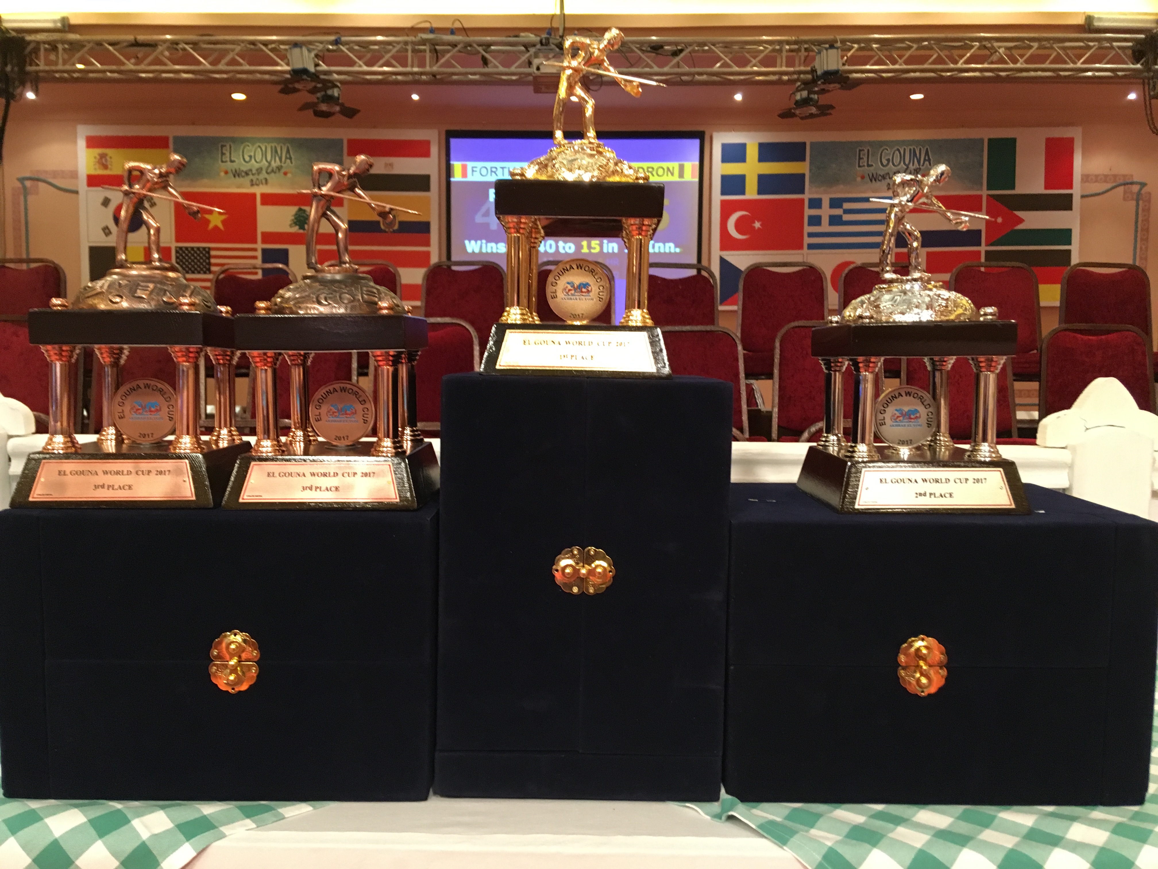 see file name